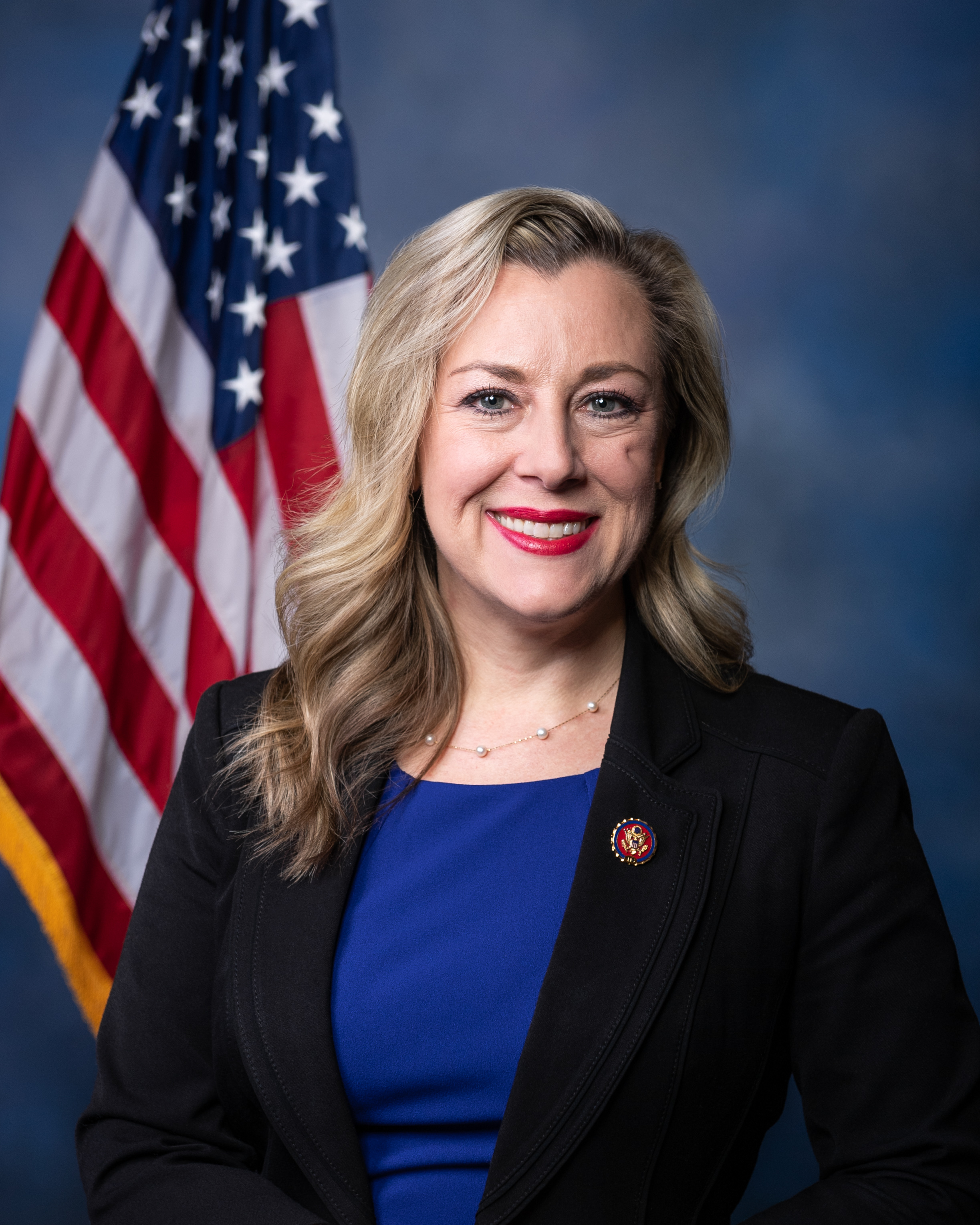 Portrait of U.S. Representative Kendra Horn of Oklahoma's 5th congressional district